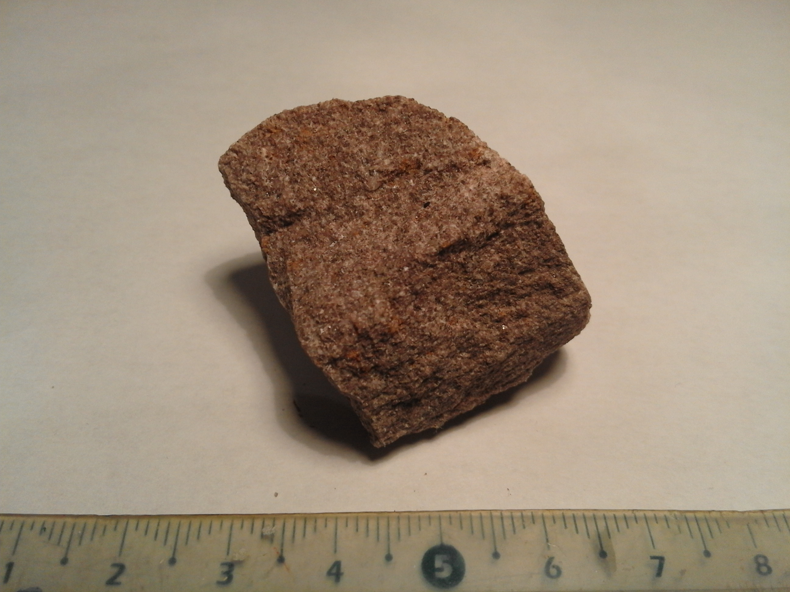 Arkose sample from Mouen, Normandy, France